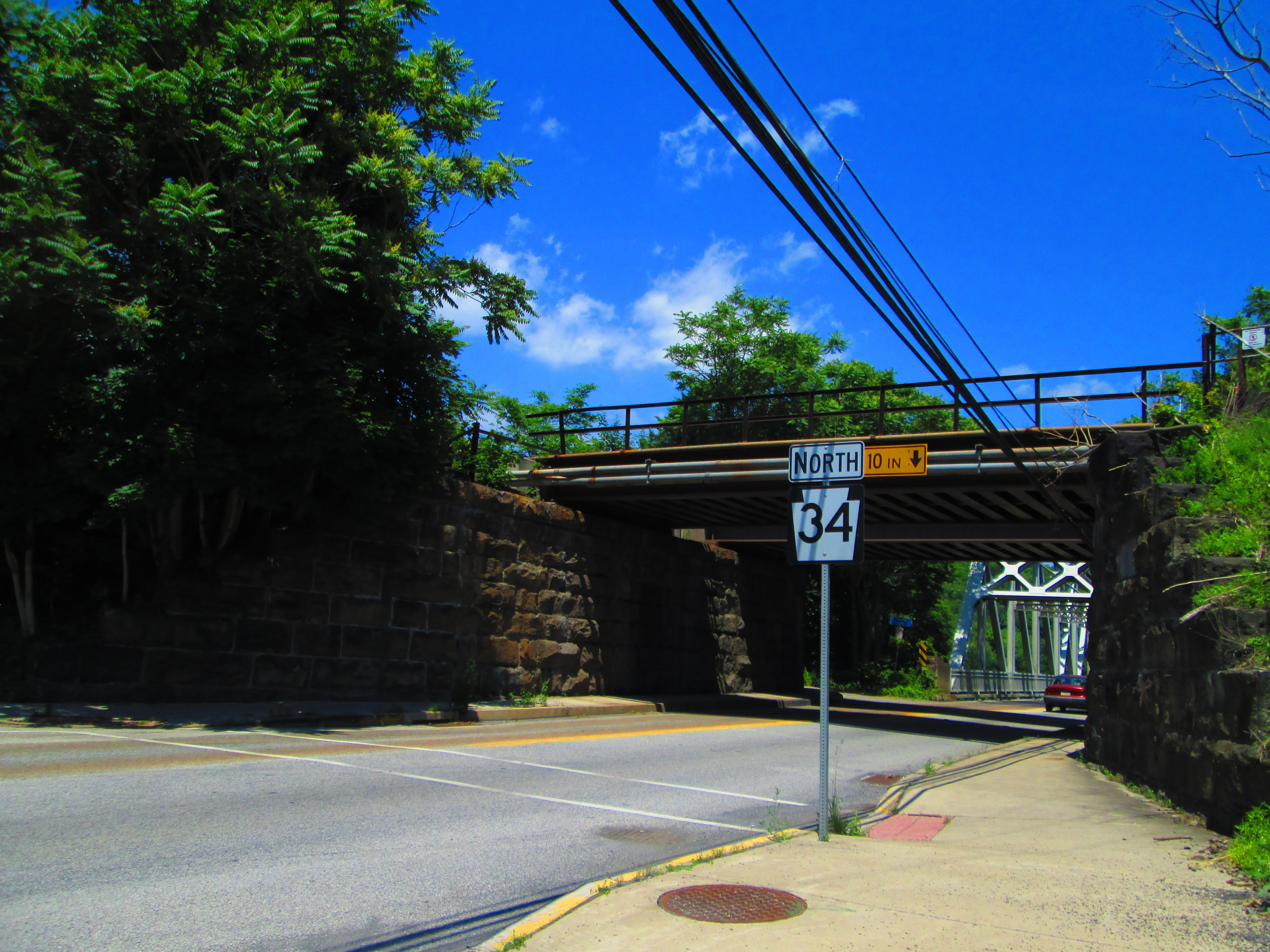 Pennsylvania State Route 34 in the borough of Newport, Pennsylvania.